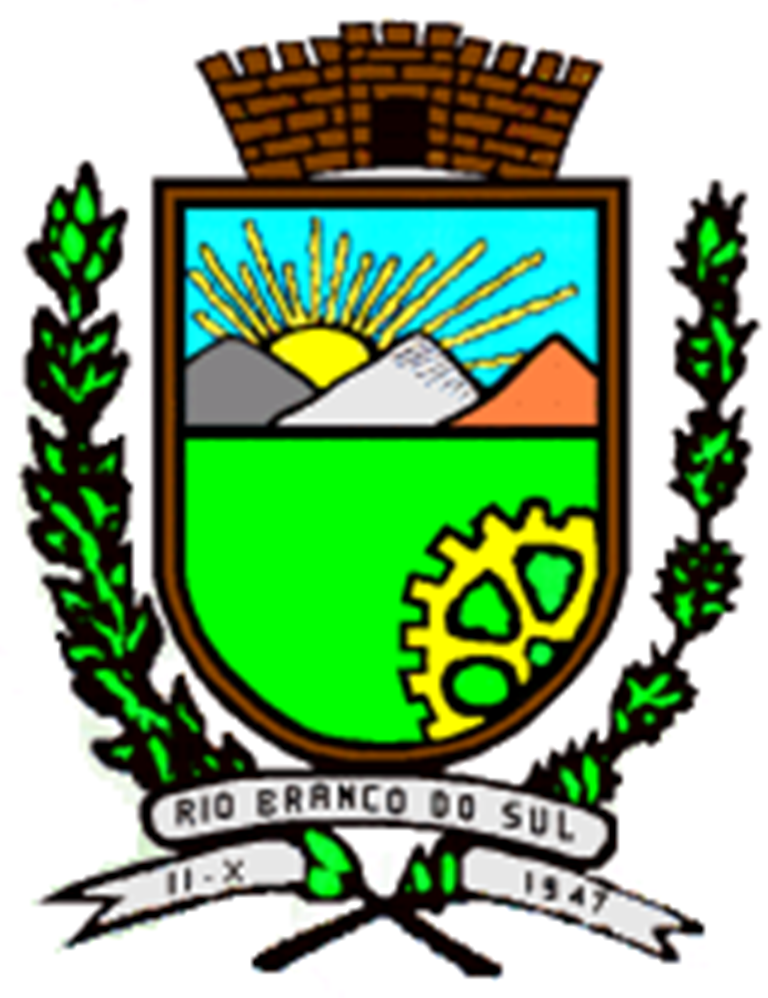 Coat of arms of Rio Branco do Sul, Paraná, Brazil